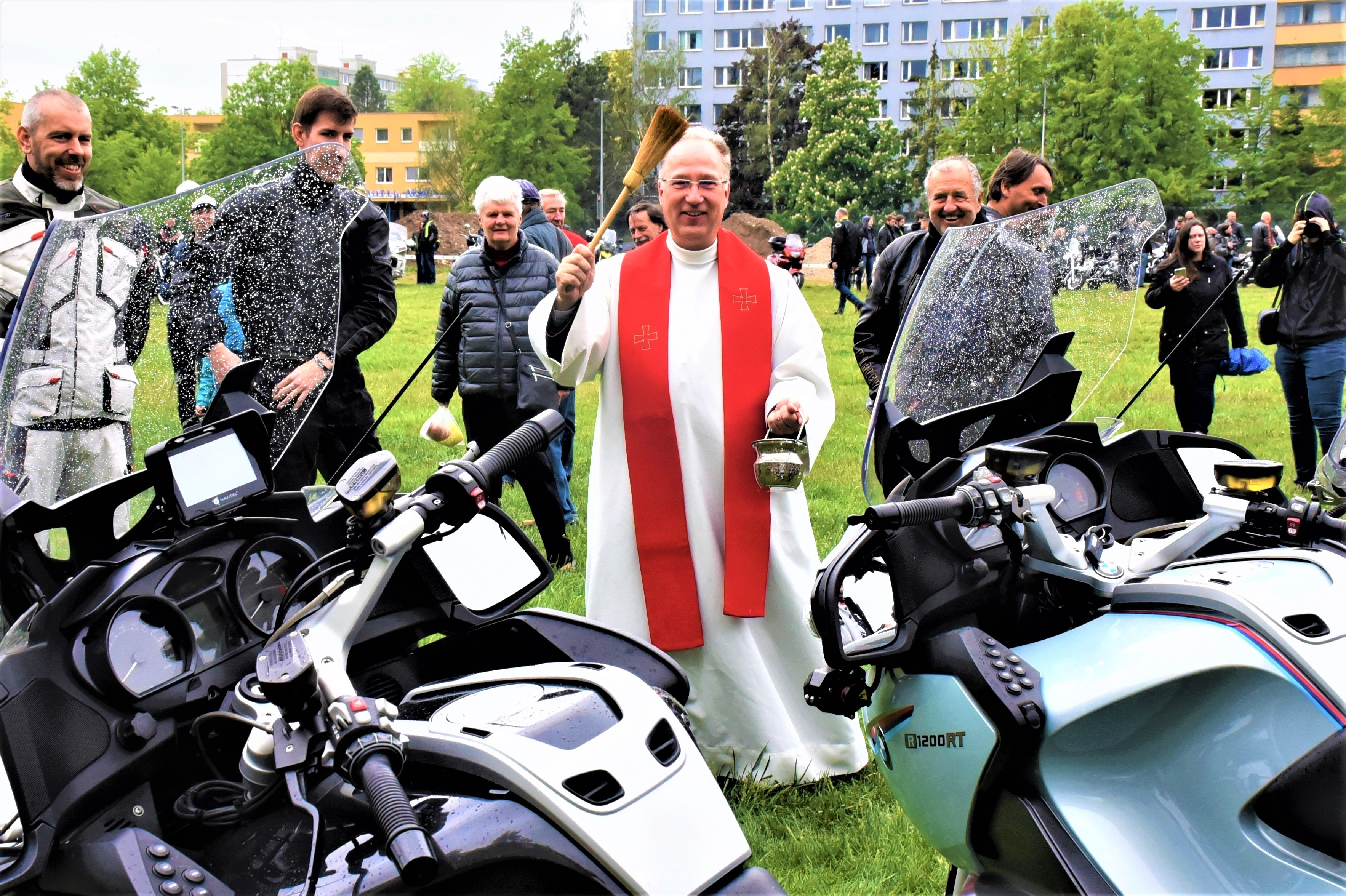 Vojtěch Eliáš, Czech Catholic Priest